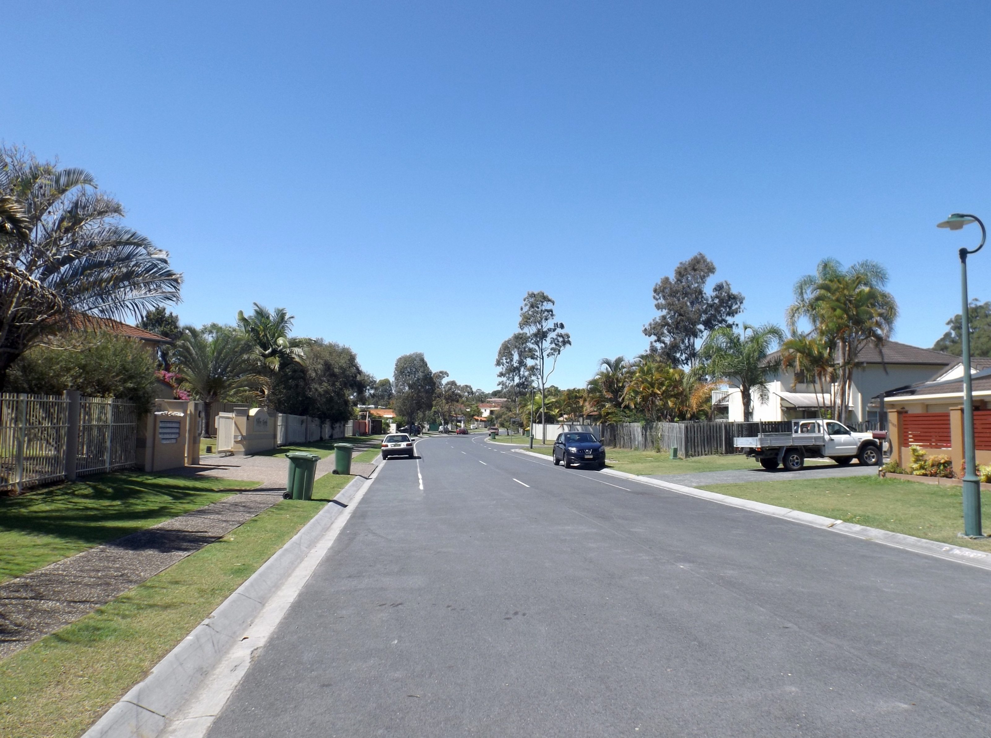 Photo of Greenacre Drive at Arundel, Gold Coast City, Queensland, Australia.